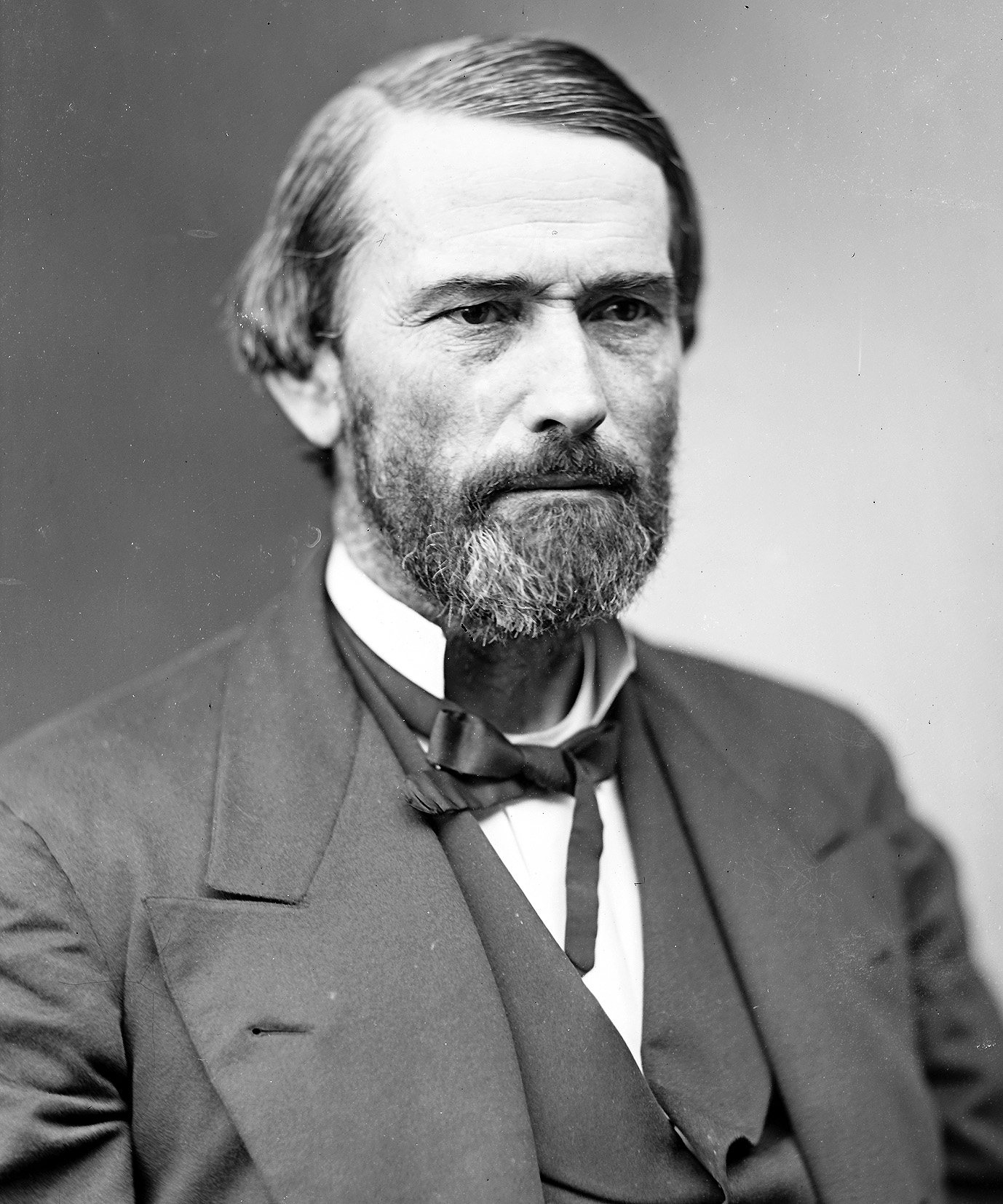 Benjamin Wilson, US Representative from West Virginia